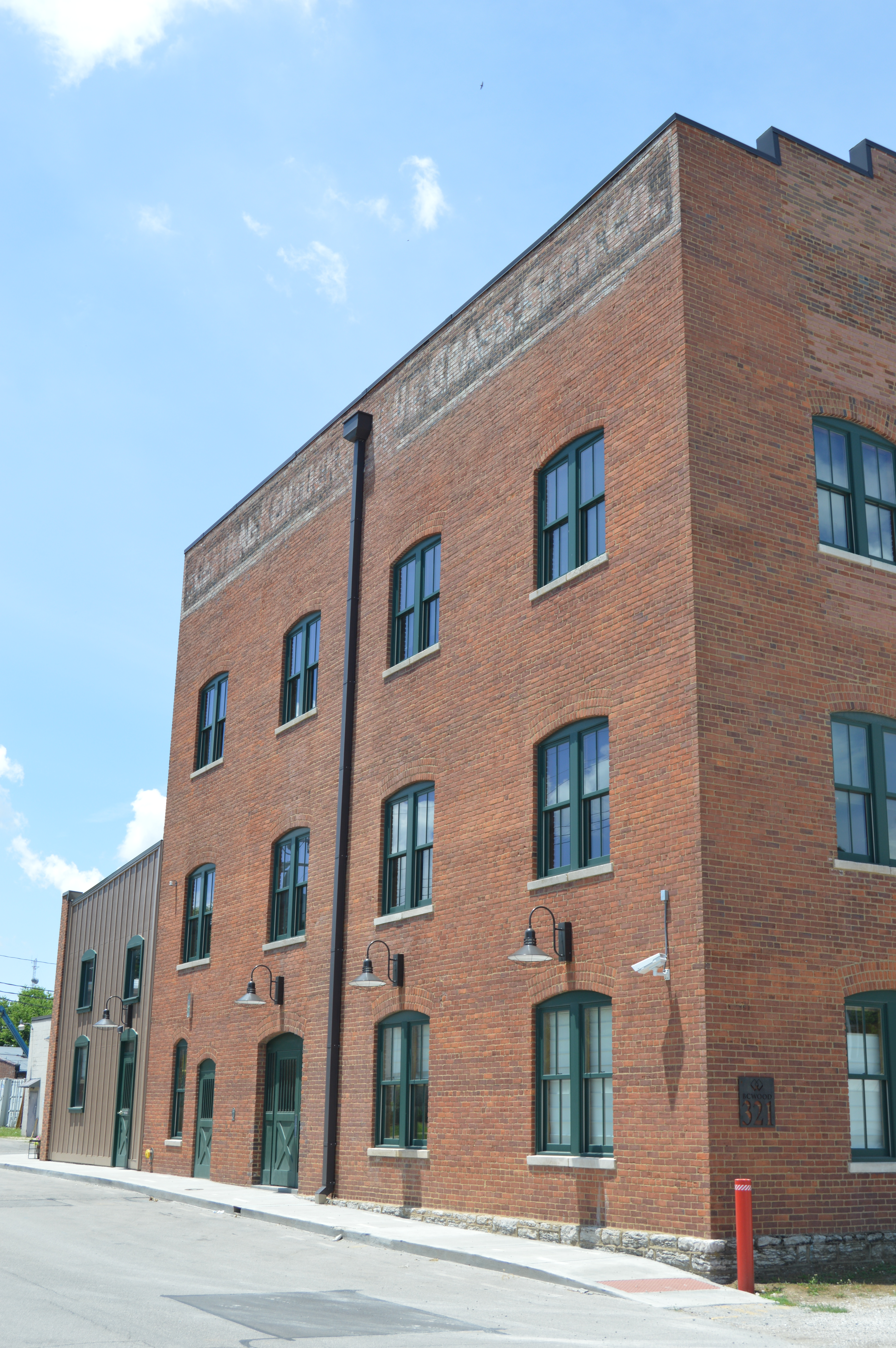 Front and western side of the Central Kentucky Blue Grass Seed Company Building, located at 321 Henry Street in Lexington, Kentucky, United States. Built in 1910, it is listed on the National Register of Historic Places.